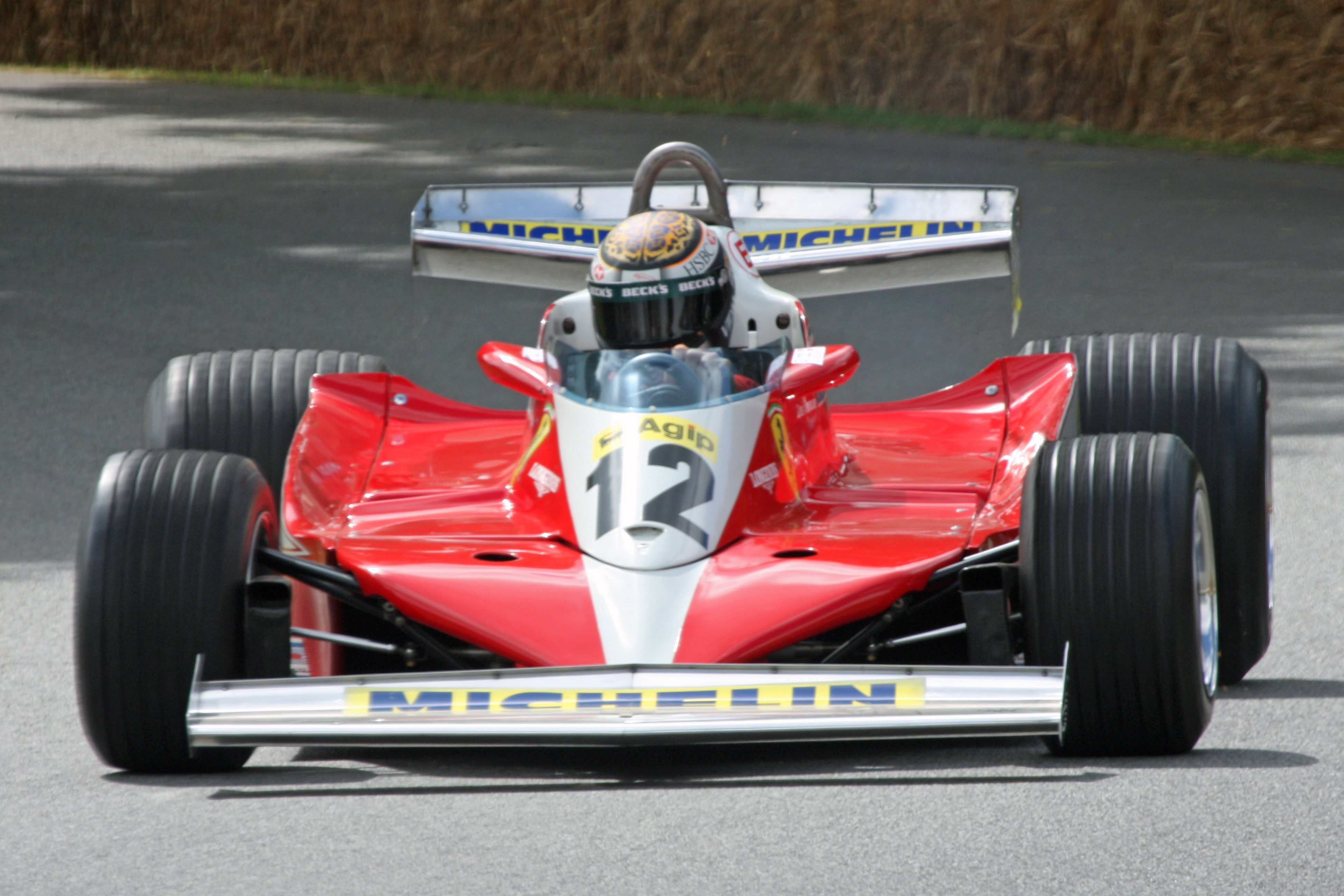 The 1978 Ferrari 312 T3 at the 2009 Goodwood Festival of Speed.